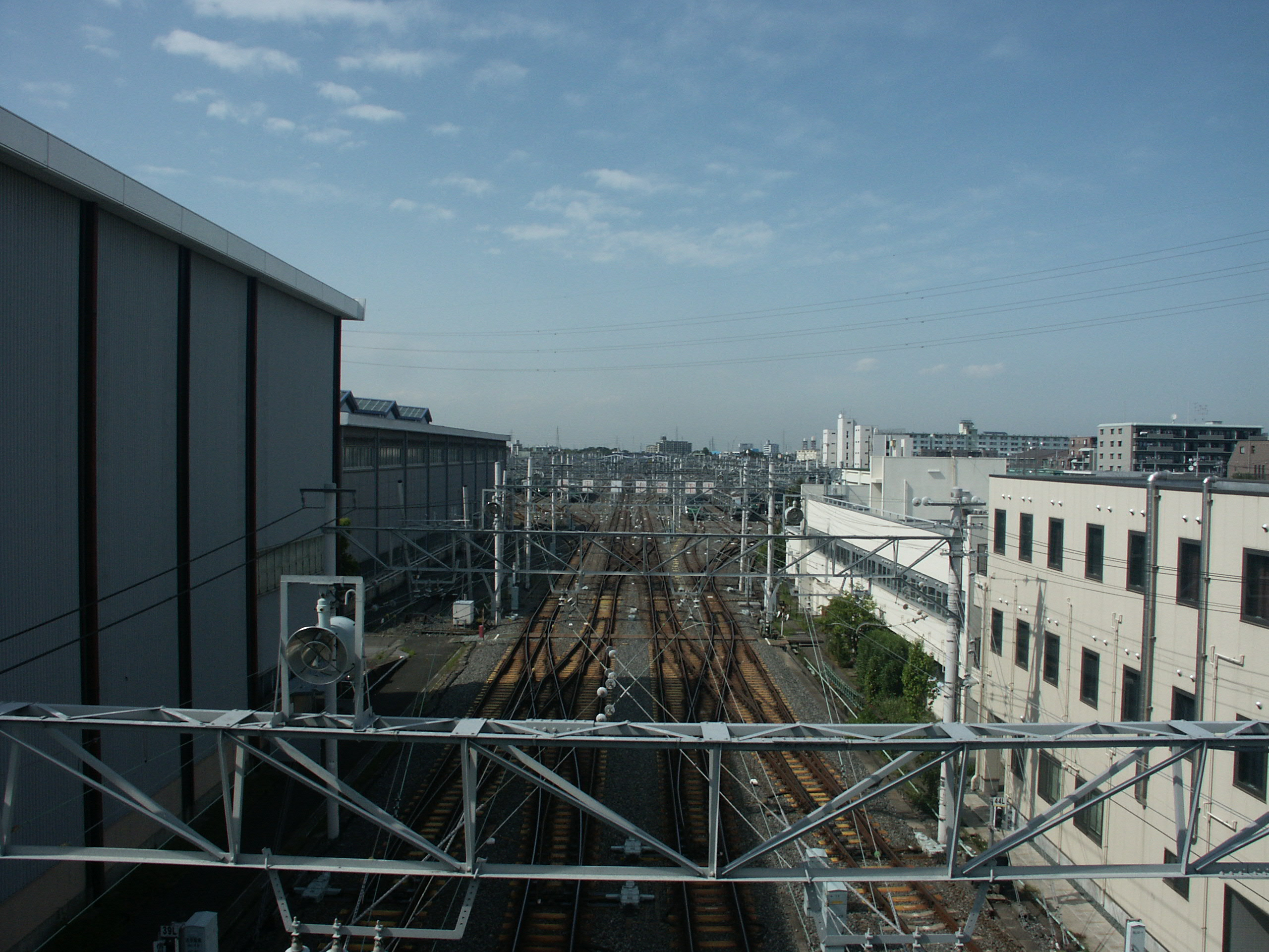 Tokyo Metro Ayase Depot